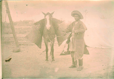 Gaucho Boliviano, 1903 Yacuiba, Fotgrafia tomada por: Jean Baptiste Vaudry